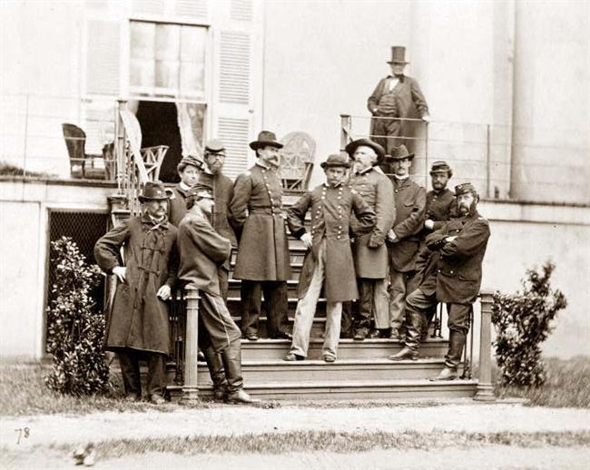 Maj. Gen. E.O.C. Ord, USA, and part of his staff, on the steps of the South Portico of the White House of the Confederacy, 1865